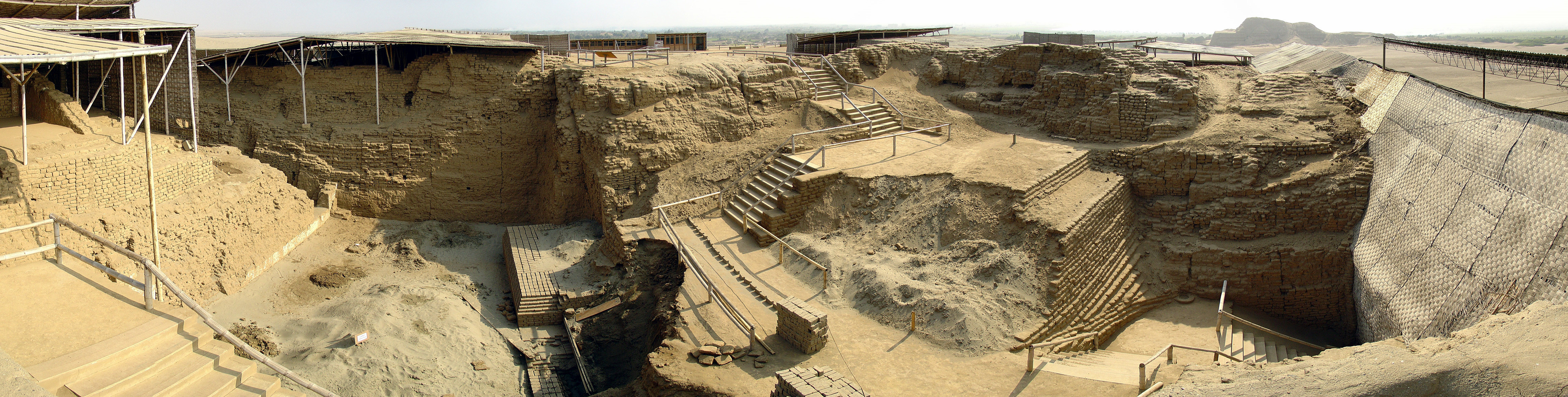 Searches at Huaca de la Luna, Trujillo, Peru